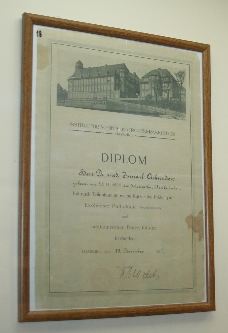 Hamburg Institute Doctor Diploma of Ismail Akhundov (1927)